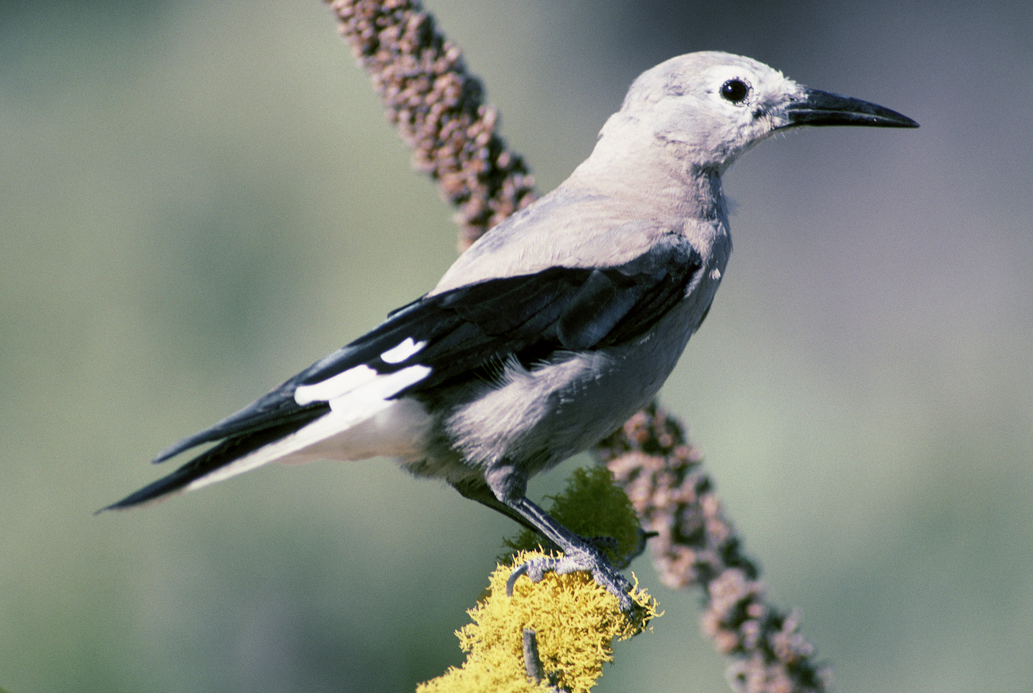 Clark's Nutcracker (Nucifraga columbiana) photographed in Deschutes National Forest